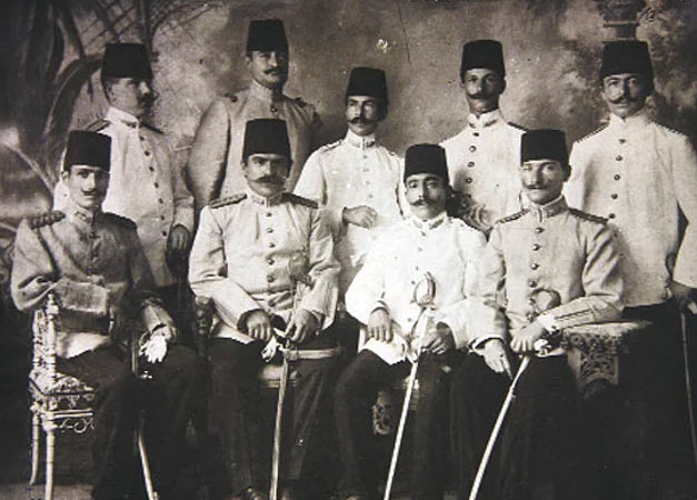 Mustafa Kemal Atatürk and Ottoman 5th Army (HQ Damascus) officers. (Beirut, 15 July 1906) Аҧсшәа: Mustafa Kemal Atatürk ve Osmanlı 5. Ordu (Karargahı Şam) subayları. (Beyrut, 15 Temmuz 1906)